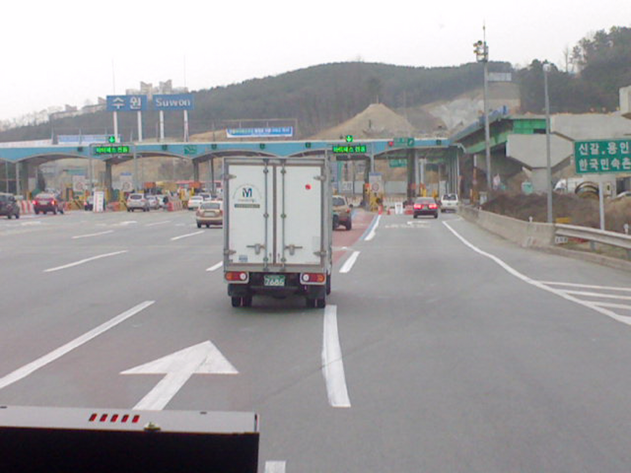 Gyeongbu Expressway Suwon IC(Suwon Tollgate, Exit, 2009)